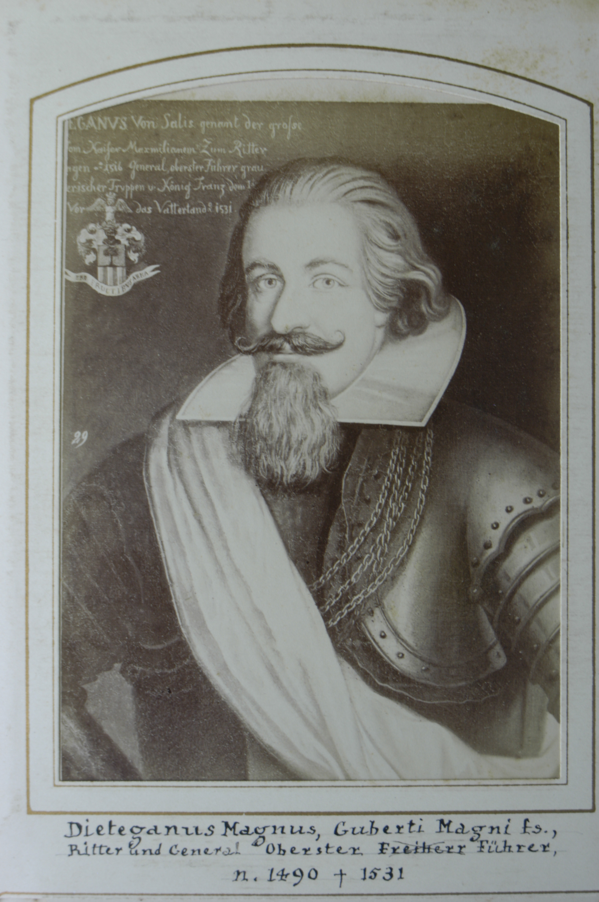 Photo (by me, R. de SalisRodolph (talk) 00:14, 5 July 2014 (UTC)) of a pre-1884 photo of a copy (?) of a painting of Ritter Dietegan 'Magnus' à Salis (1473-1531). Other information sitter: Ritter Dietegan 'Magnus' à Salis (1473-1531).